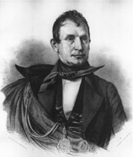 Photo of Illinois Senator John M. Robinson